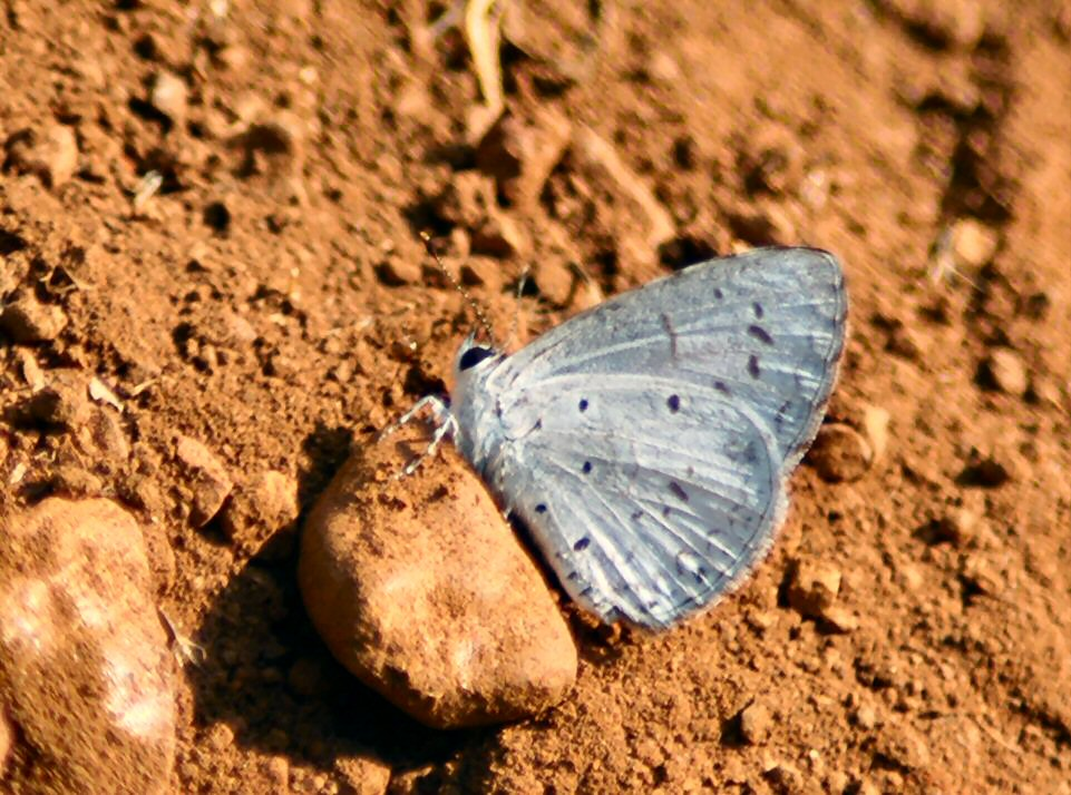 Common Hedge Blue : Acytolepis puspa